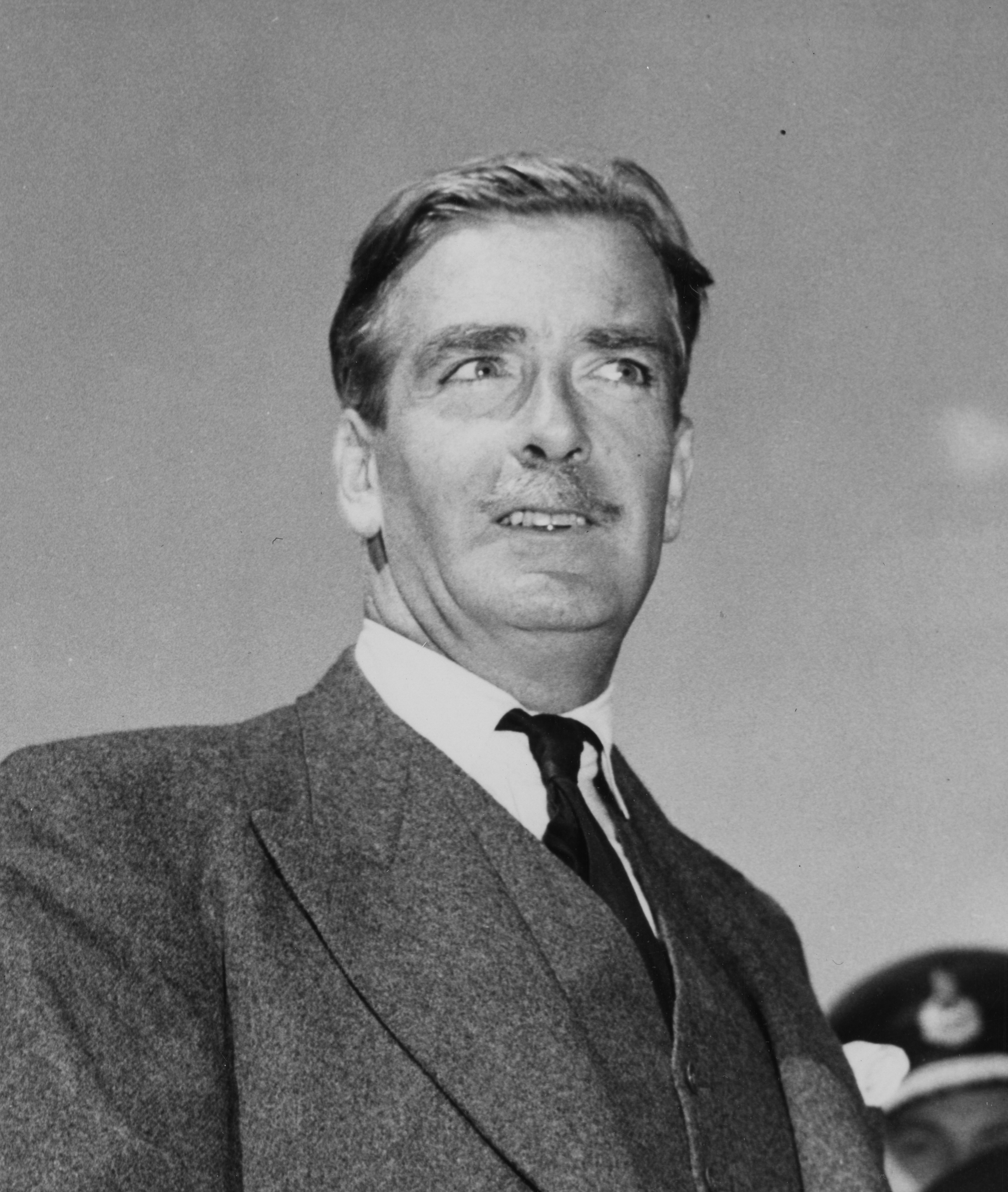 Anthony Eden (foreground, right) arrives at Gatow Airport in Berlin for the Potsdam Conference. Others are unidentified. From Potsdam album, 1945. Portrait of Anthony Eden (1897–1977)